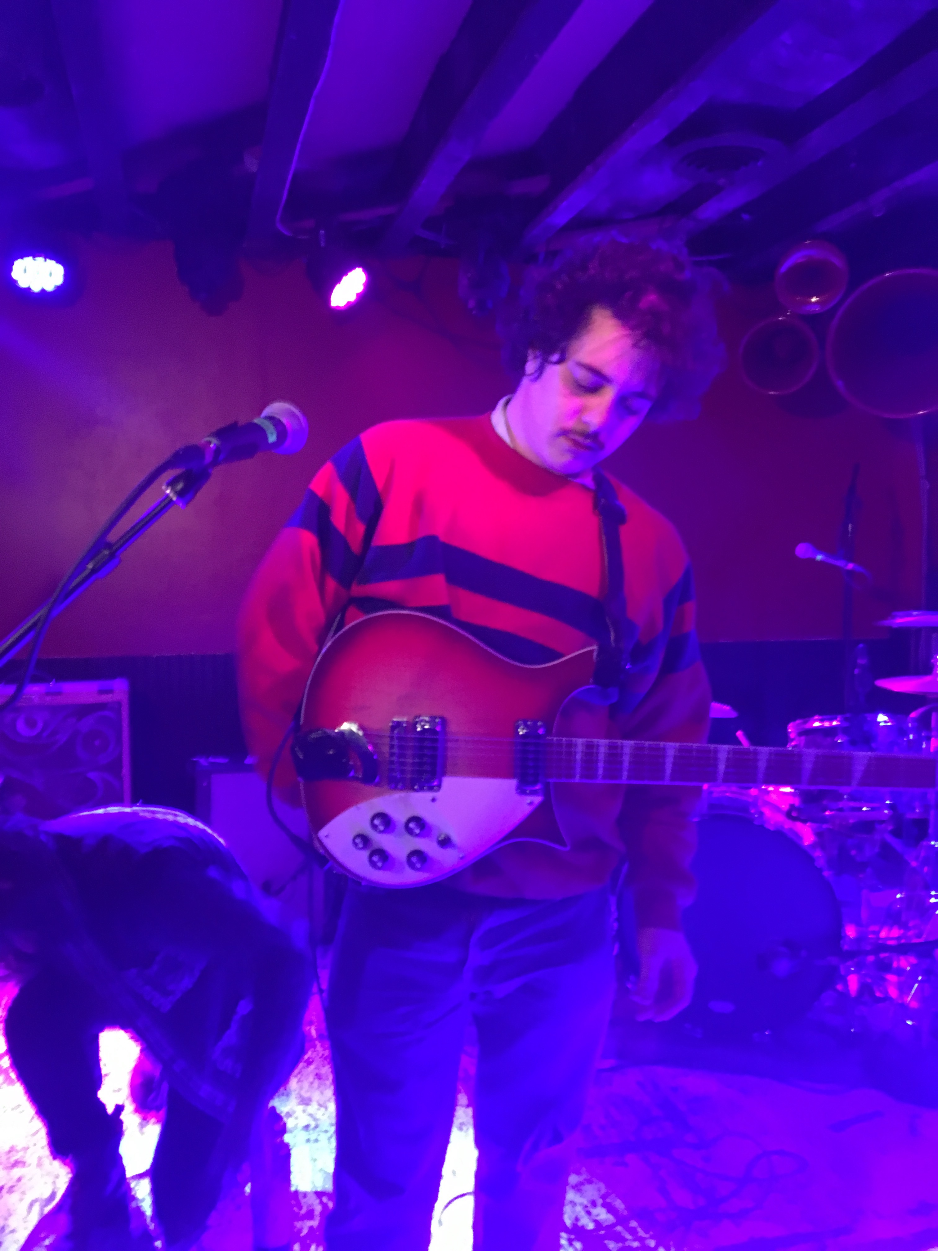 Rob Grote preparing for a show at the DC9 nightclub in December 2016.